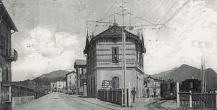 Varese Bettole railway station in 1930s